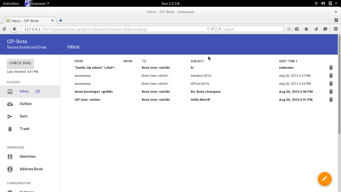 A screenshot of the inbox of I2PBote.